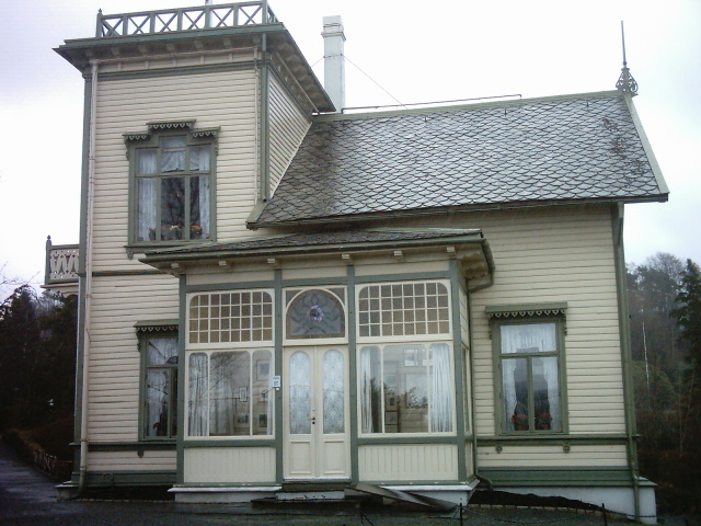 Troldhaugen home of composer Edvard Grieg in Norway.